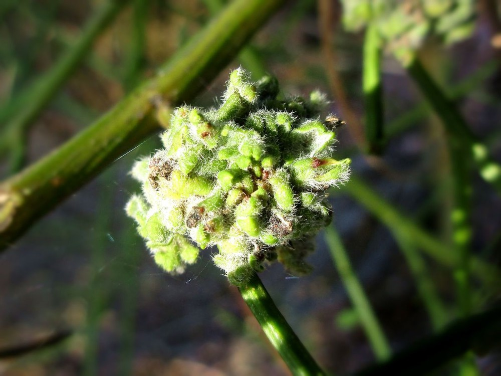 Aceria genistae (Eriophyidae) - (gall), Molenhoek - NS-terrein, the Netherlands